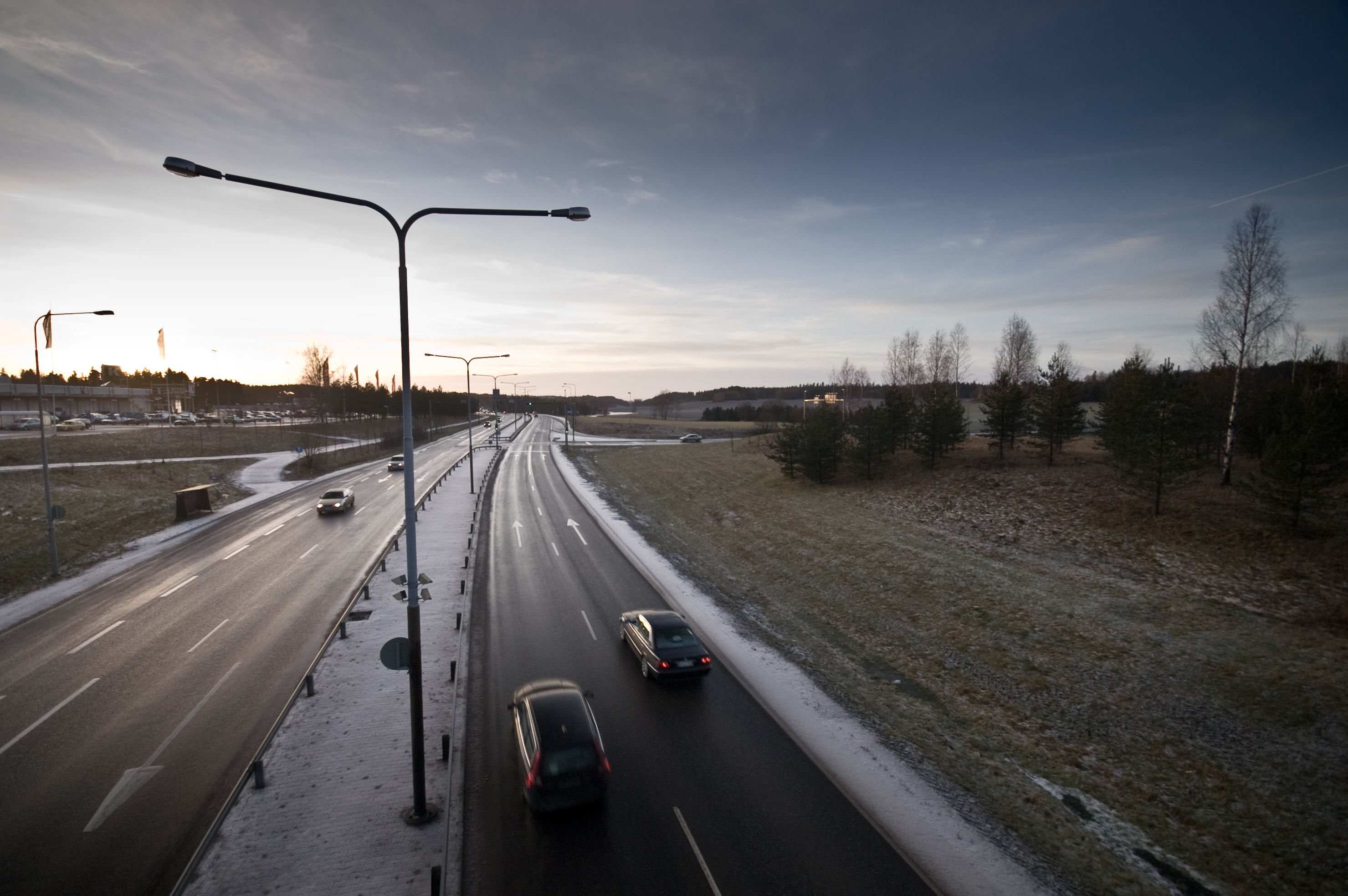 National road 10 in Auranlaakso, Kaarina, Finland